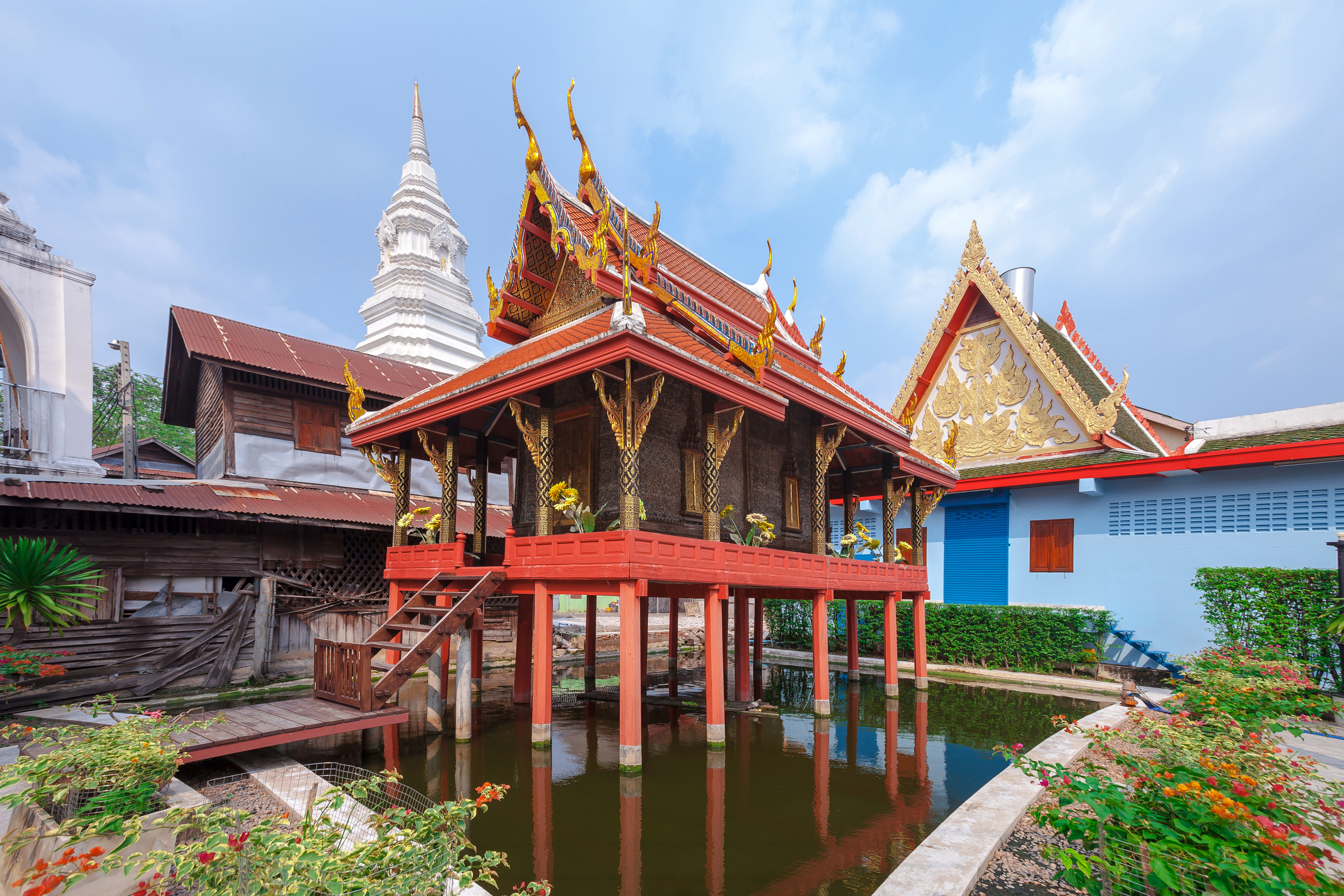 Ho trai Wat Apson Sawan, Phasi Charoen, Bangkok